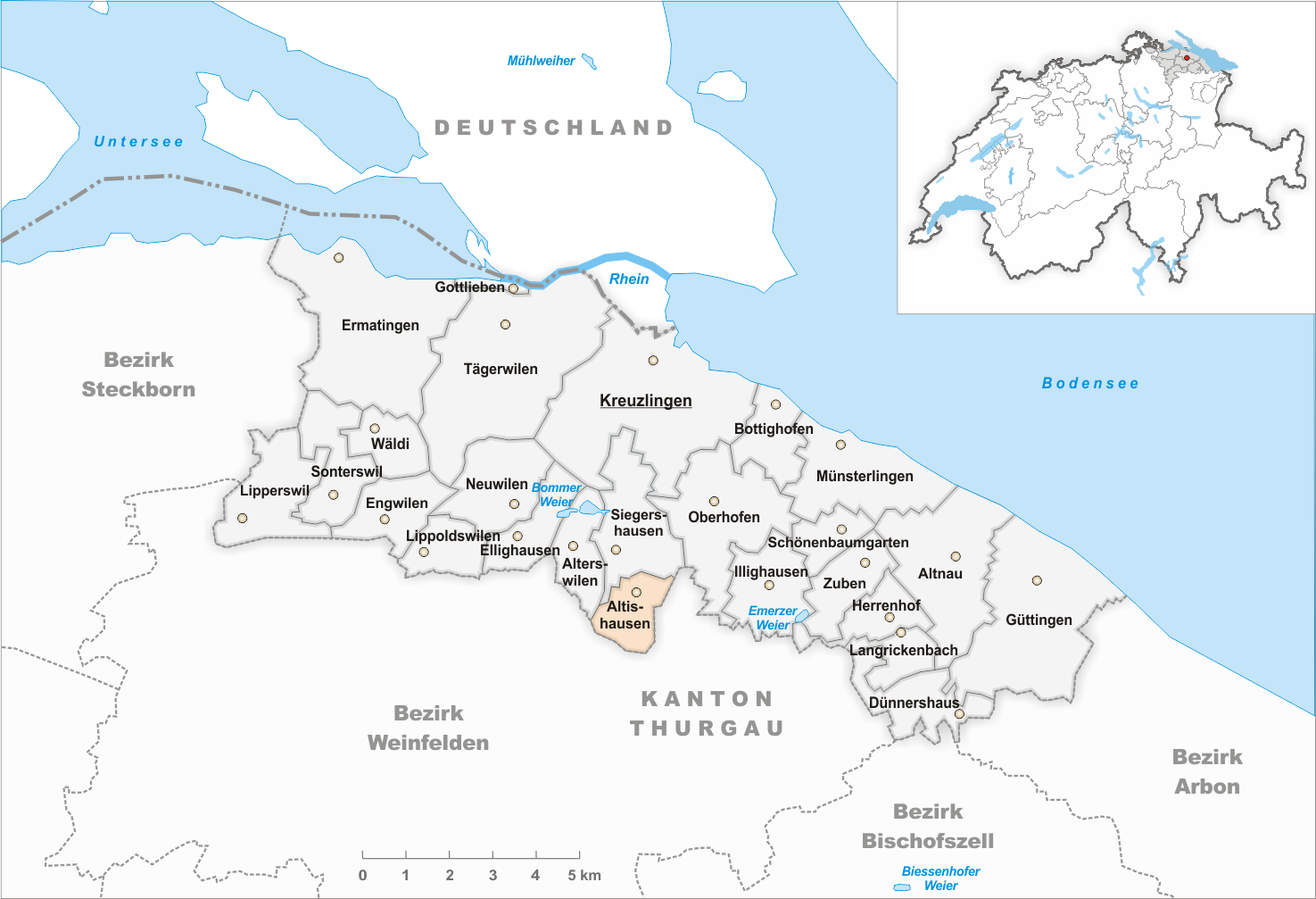 Municipality Altishausen